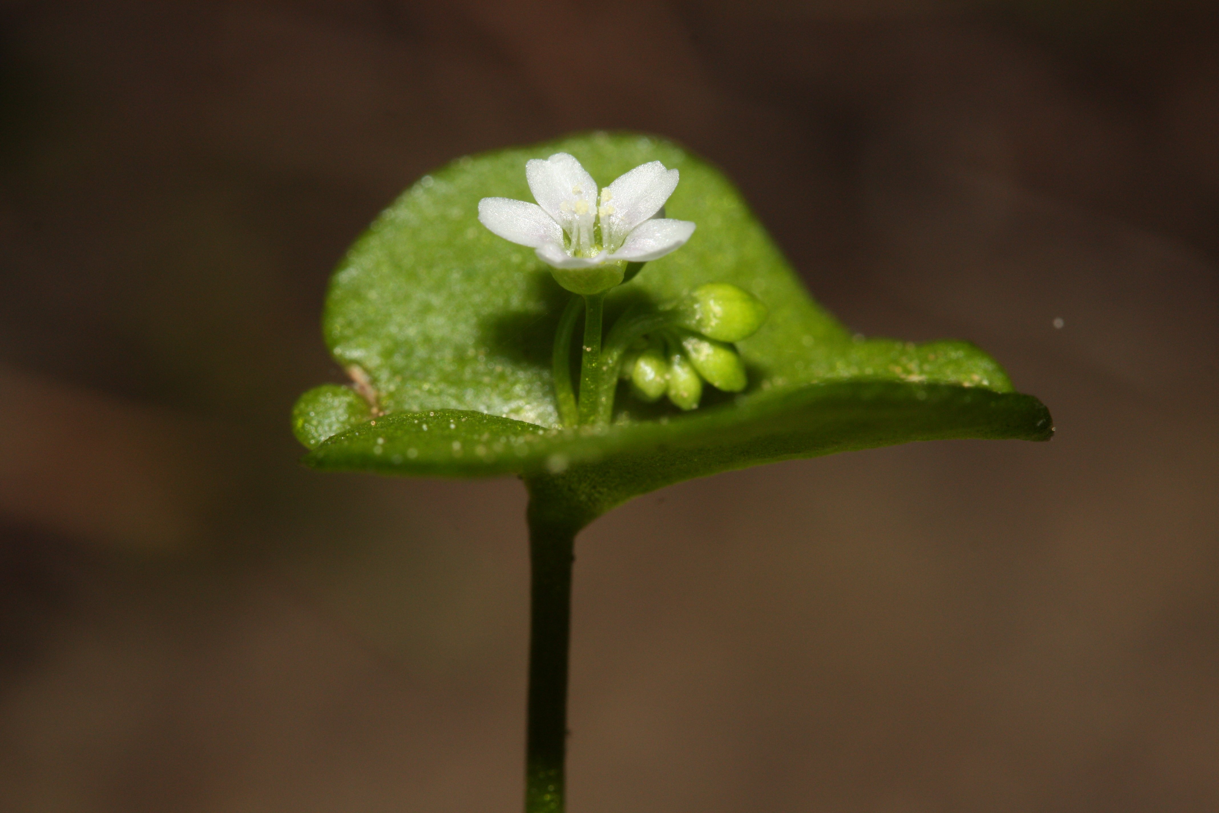 Miner's Lettuce; auth. Donn ex Willd.